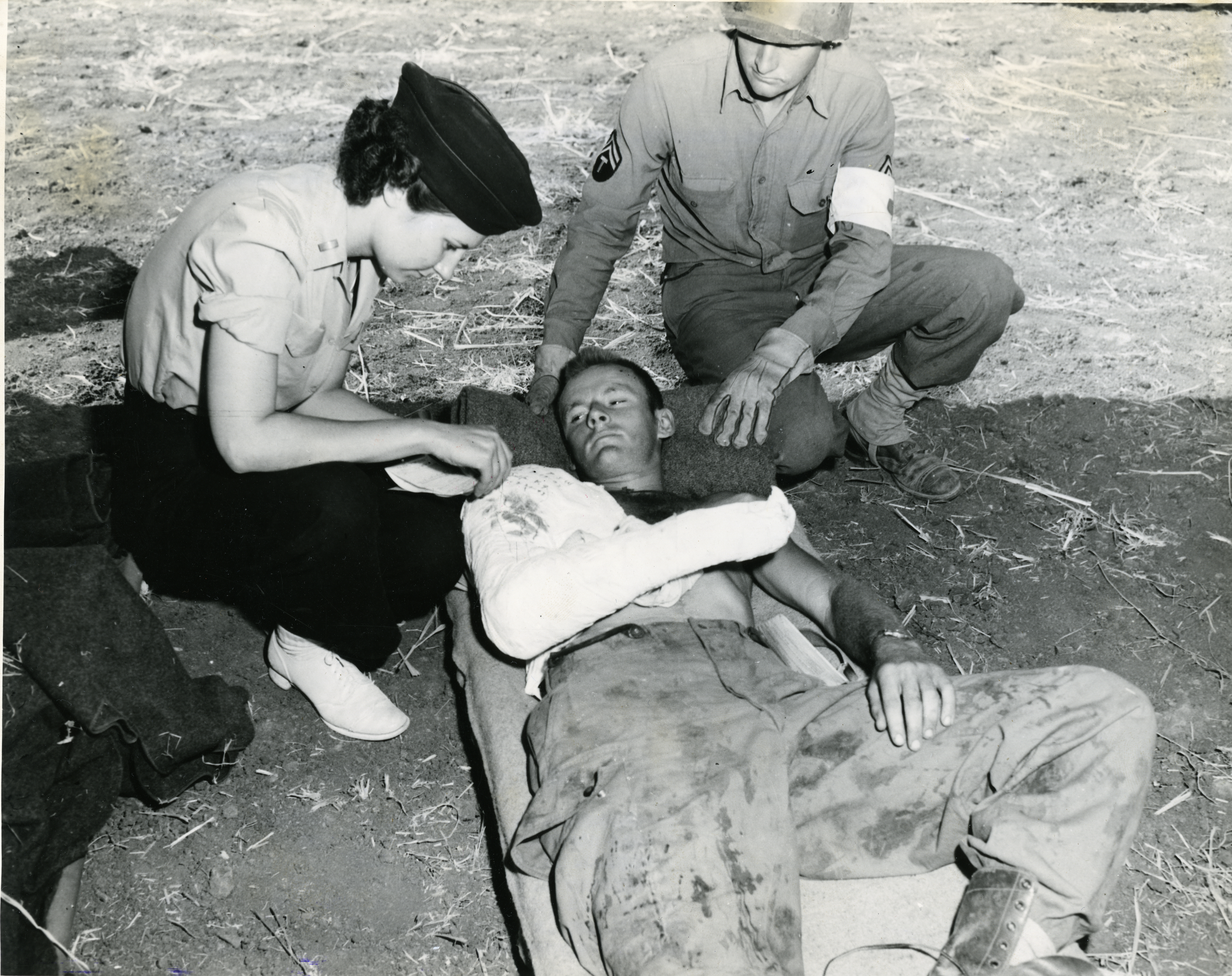 Nurse Verona Savinski, 802nd Medical Evacuation Transport Sqd., and Cpl. Claude W. Thomas 3rd Auxiliary Surgical group, with Pfc. Joe Kirach of Brooklyn N.Y. 504th Parachute Infantry, who was strafed after rushing to the front after jumping D-Day. [1]; [2]